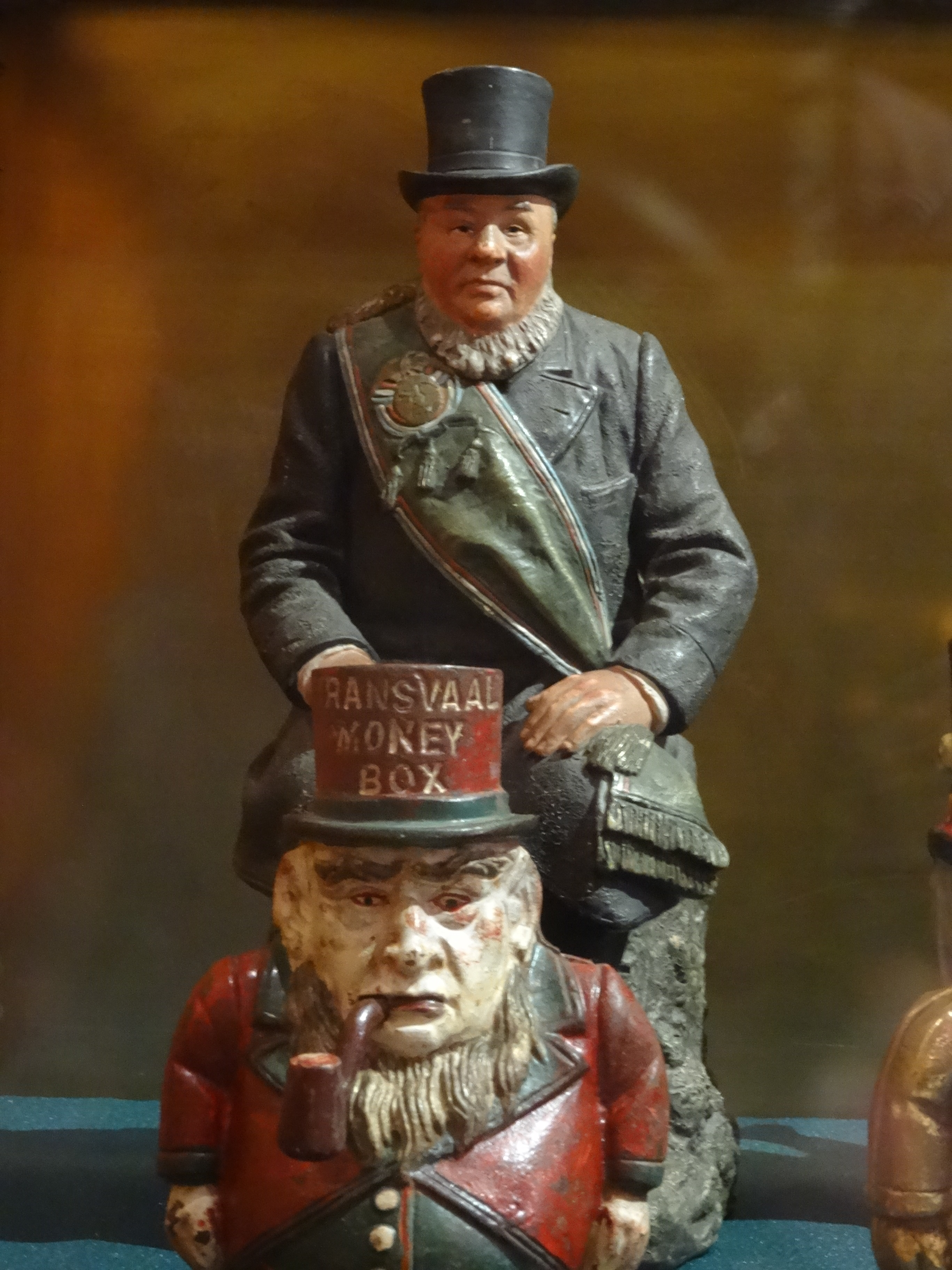 Paul Kruger figures, Kruger House Museum, Pretoria, South Africa.